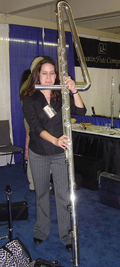 American flutist Maria Ramey playing a subcontrabass flute in G, made by Eva Kingma. Photo taken at a flute convention. Contents 1 Permission 1.1 Email requesting permission 1.2 Email granting permission 2 Licensing 3 Original upload log Permission Email requesting permission From: Wikipedia user: Badagnani To: Maria Ramey Date: Monday, December 22, 2008 4:26 AM Subject: Your double contrabass flute photo Hello, I am one of the thousands of volunteer editors at Wikipedia, where I write and edit various music-related articles. I wrote several on the very low flutes and have had links on at least two of them to photos in which you play them, but we never had any photos of people playing them. I am wondering if you might allow the photos of you playing the double contrabass and subcontrabass (double contra-alto) to be used here, as the representative photos of these instruments: As per Wikipedia's rules, the only specification would be that the photographer agree to release the photo under a "free" license such as the Creative Commons, which would allow the photo to be reused by anyone who finds it at Wikipedia, for any purpose (although the photographer would always have to be credited, and there would be a link to your website). Wikipedia is now the eighth most visited website in the world, so I think it would serve a good educational purpose, and you'd get a lot of views. Would you please let me know if that would be okay with you? Many thanks and best, Wikipedia user: Badagnani Kent, Ohio Email granting permission From: "Maria Ramey" To: Wikipedia user: Badagnani Date: Monday, December 22, 2008 12:16 PM Subject: RE: Your double contrabass flute photo Hello, Yes, you may use my photo. Let me know if you need to use a different size of the same photo that whatâ€™s on my website currently. Maria Ramey Flute Finds â€“ Gifts and accessories for flutists!